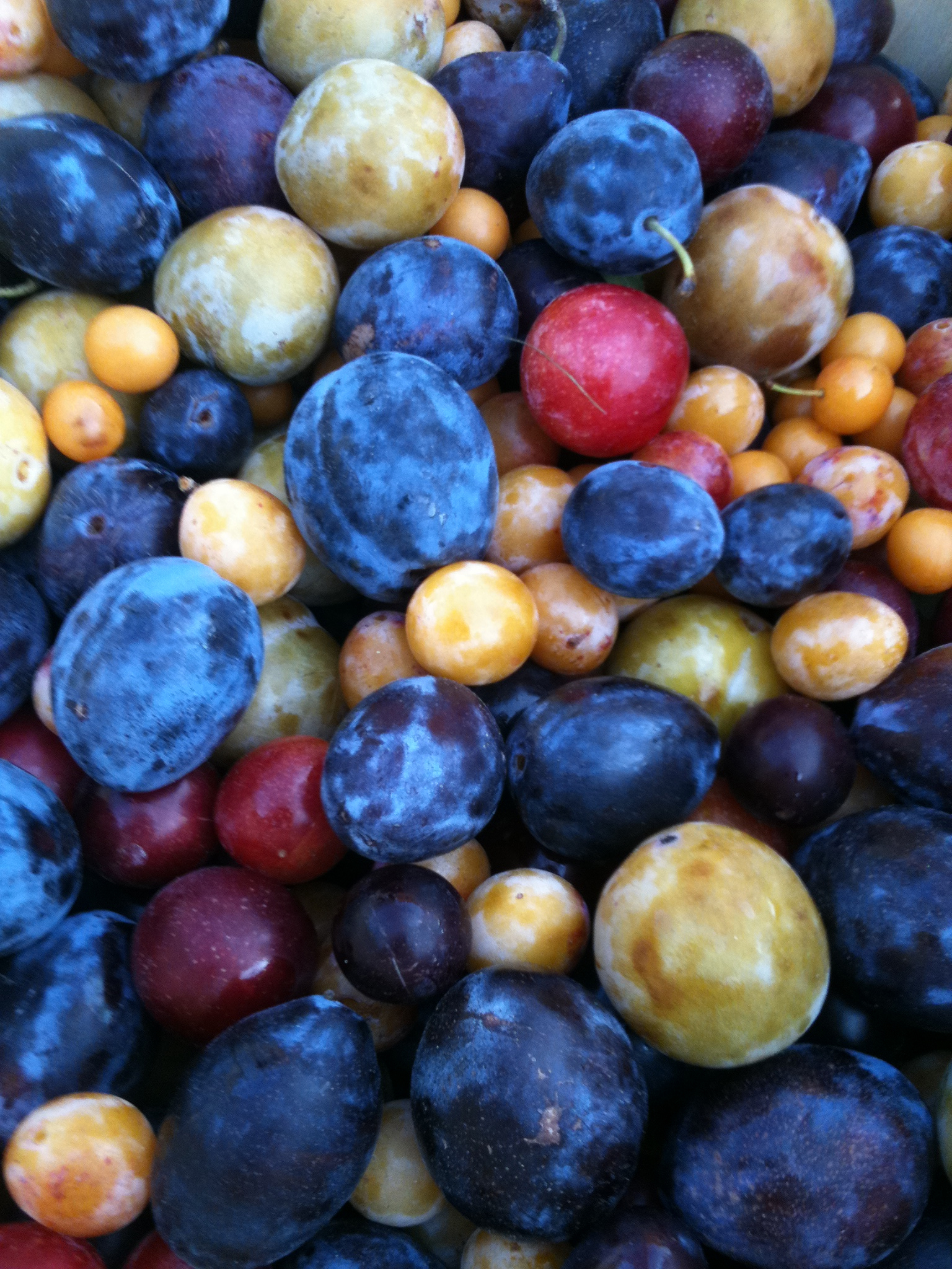 Tree of 40 Fruit by Sam Van Aken courtesy Ronald Feldman Fine Art - plum harvest in 2011. van Aken says in his TED talk thet these were all harvested in one week, in August